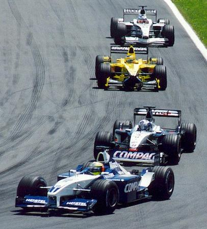 Ralf Schumacher (Williams) leads David Coulthard (McLaren), Jarno Trulli (Jordan) and Olivier Panis (BAR) at the 2001 Canadian Grand Prix.